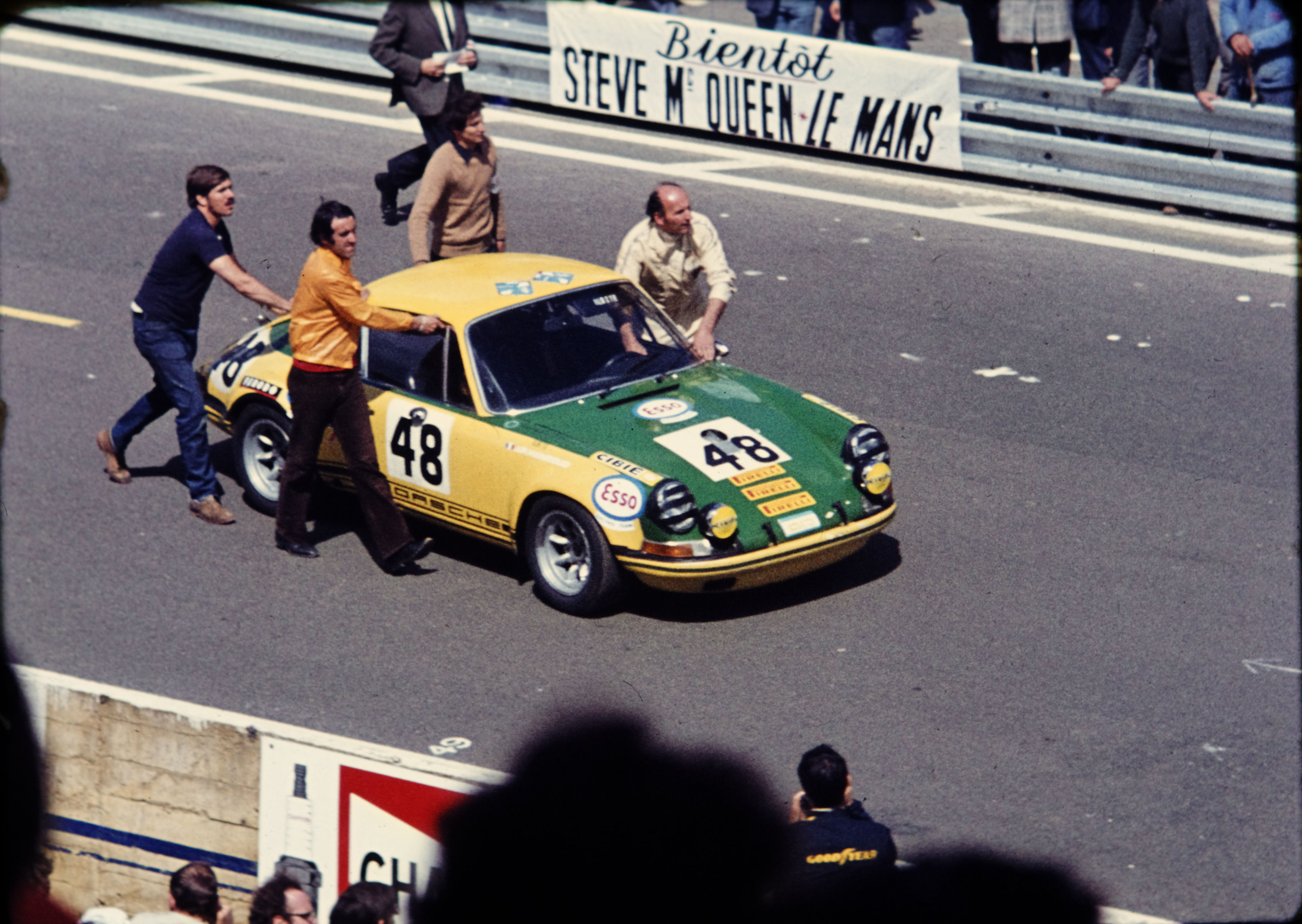 Porsche 911 S N°48 Jean Pierre Hanrioud Technique : Catégorie : GTS Moteur : F6 Porsche 2245 cm3 Pilotes : Mario Ilotte Jean Pierre Hanrioud